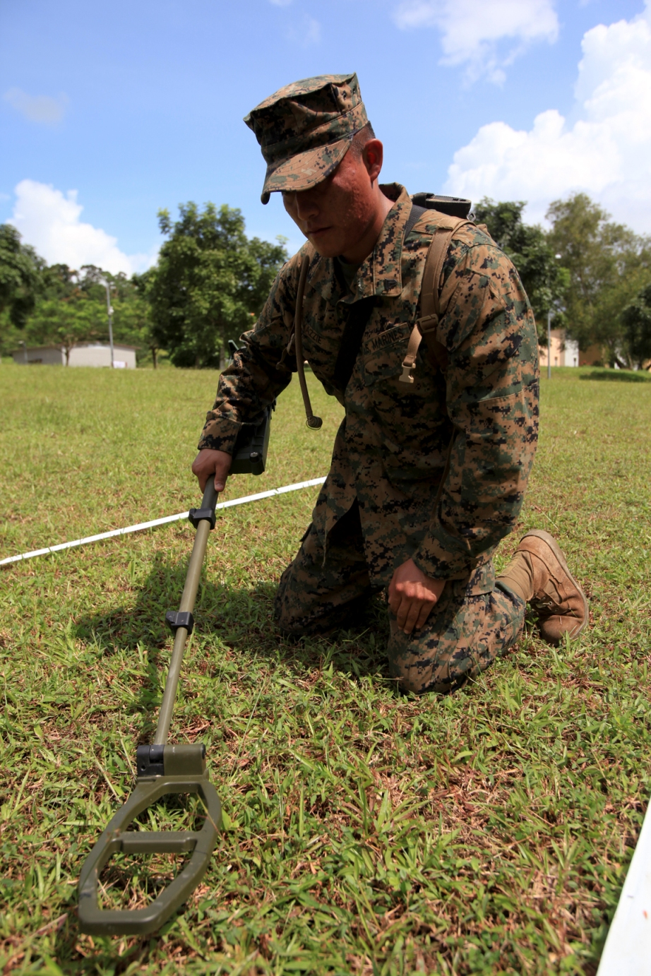 Cpl. Natashkie J. Yazzie operates a compact metal detector during an exercise here Dec. 13. Yazzie, a 22-year-old Chinle, Ariz., native, is a heavy equipment mechanic with Combat Logistics Battalion 11, 11th Marine Expeditionary Unit. The Camp Pendleton, Calif., based 11th Marine Expeditionary Unit deployed from San Diego Nov. 14 aboard USS Makin Island, USS New Orleans and USS Pearl Harbor and arrived in Singapore Dec. 12 as part of a regularly scheduled deployment to the Western Pacific and Middle East regions.